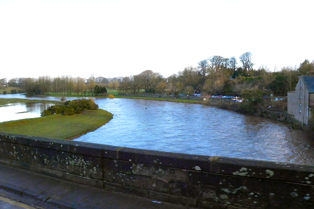 River Annan, looking upstream from Annan Bridge. Annan, Mote of Annan, motte and bailey castle on right. Refer : Bruce Street branches off the High Street at the War Memorial. It leads to the public park where the mounds of Robert de Brus' 12th century motte and bailey (covered with trees on the right of the photograph) still tower impressively over the site of the original river crossing. This was the first of the castles built by this powerful Norman dynasty, who gave the settlement of Annan baronial burgh status. A c.1560 sketch of Robert the Bruce's "Annan Castle" appears to show a castle described as a motte and bailey next to what appears to be a broch beside the river.